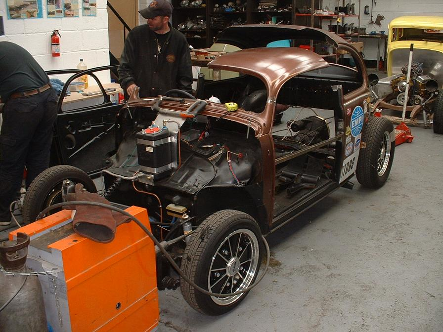 Roof Chopping a VW Beetle Race Car - the rear of the roof has yet to be lowered in this picture. Author Matt Dolby